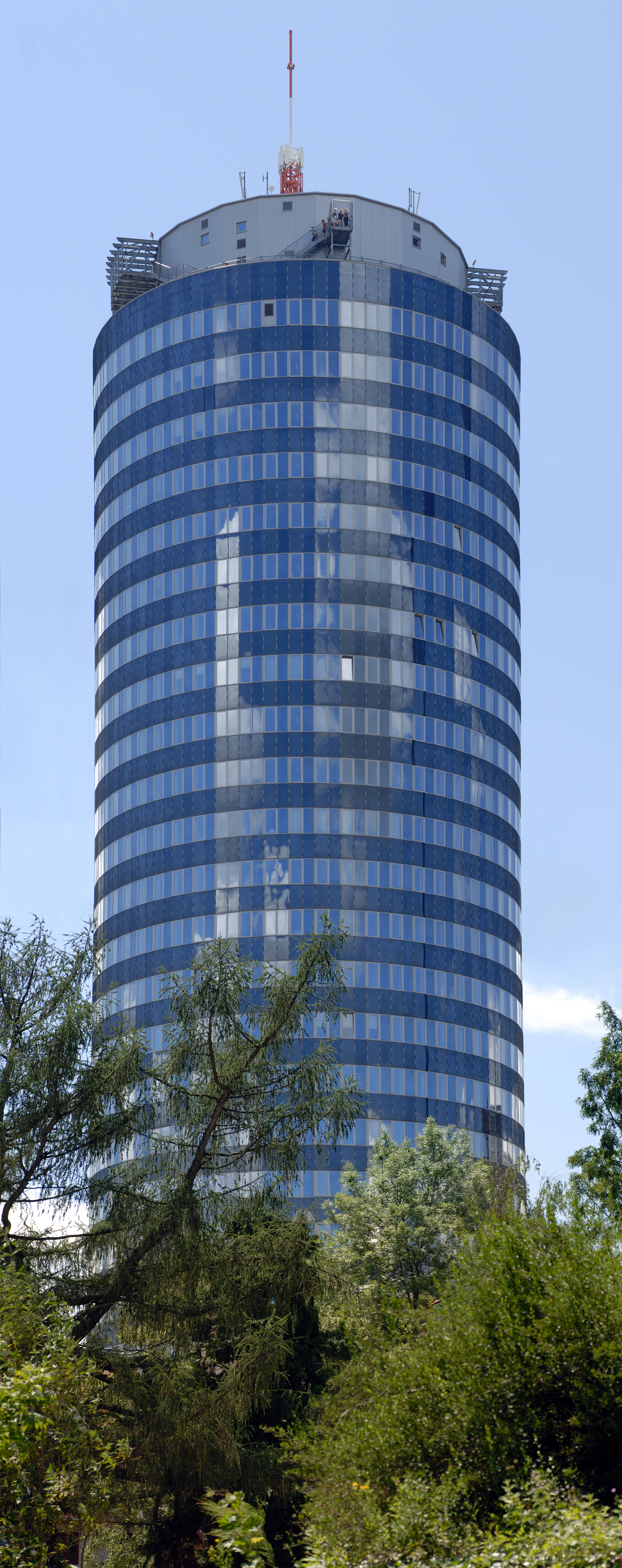 This image shows the JenTower in Jena, Thuringia, Germany. It is a four segment panoramic image.